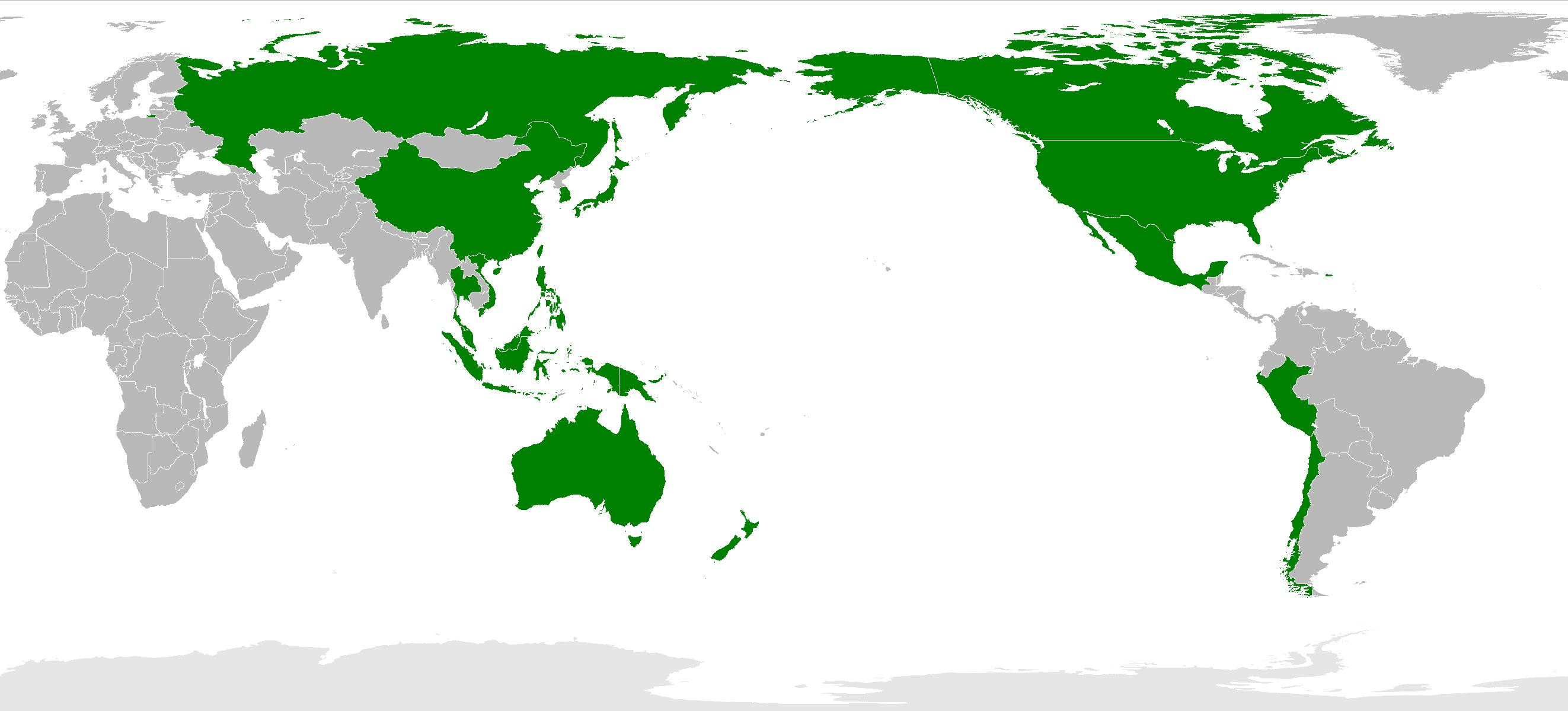 21 APEC member nations shown in green